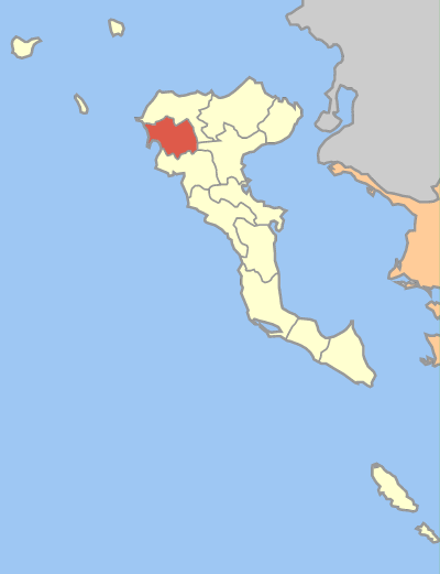 Locator map of Agios Georgios municipality (Δήμος Αγίου Γεωργίου) in Corfu prefecture (Νομός Κέρκυρας) in Greece.